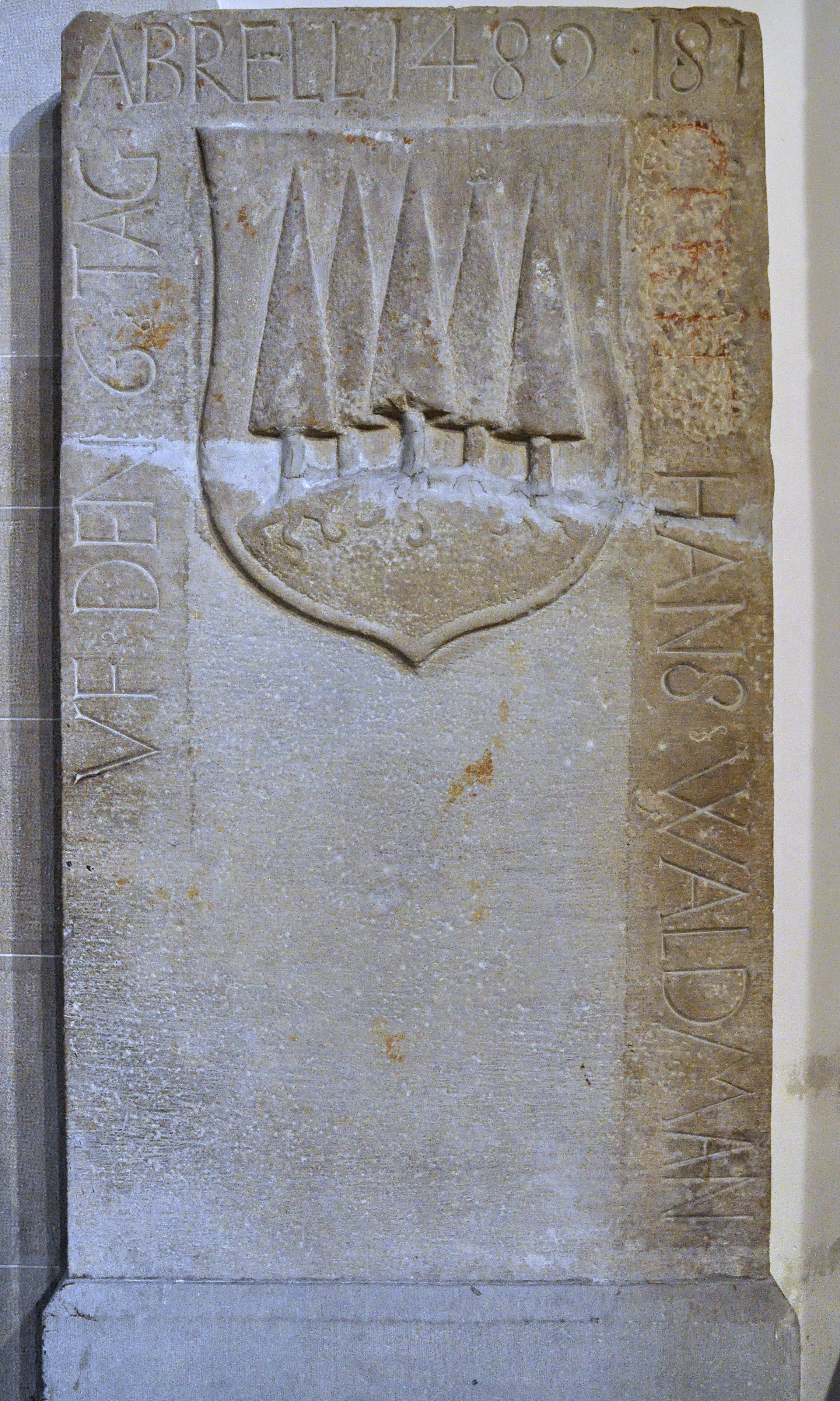 Hans Waldmann's (* 1435; † 1489) gravestone, situated at the main entrance of the Fraumünster abbey in Zürich (Switzerland).